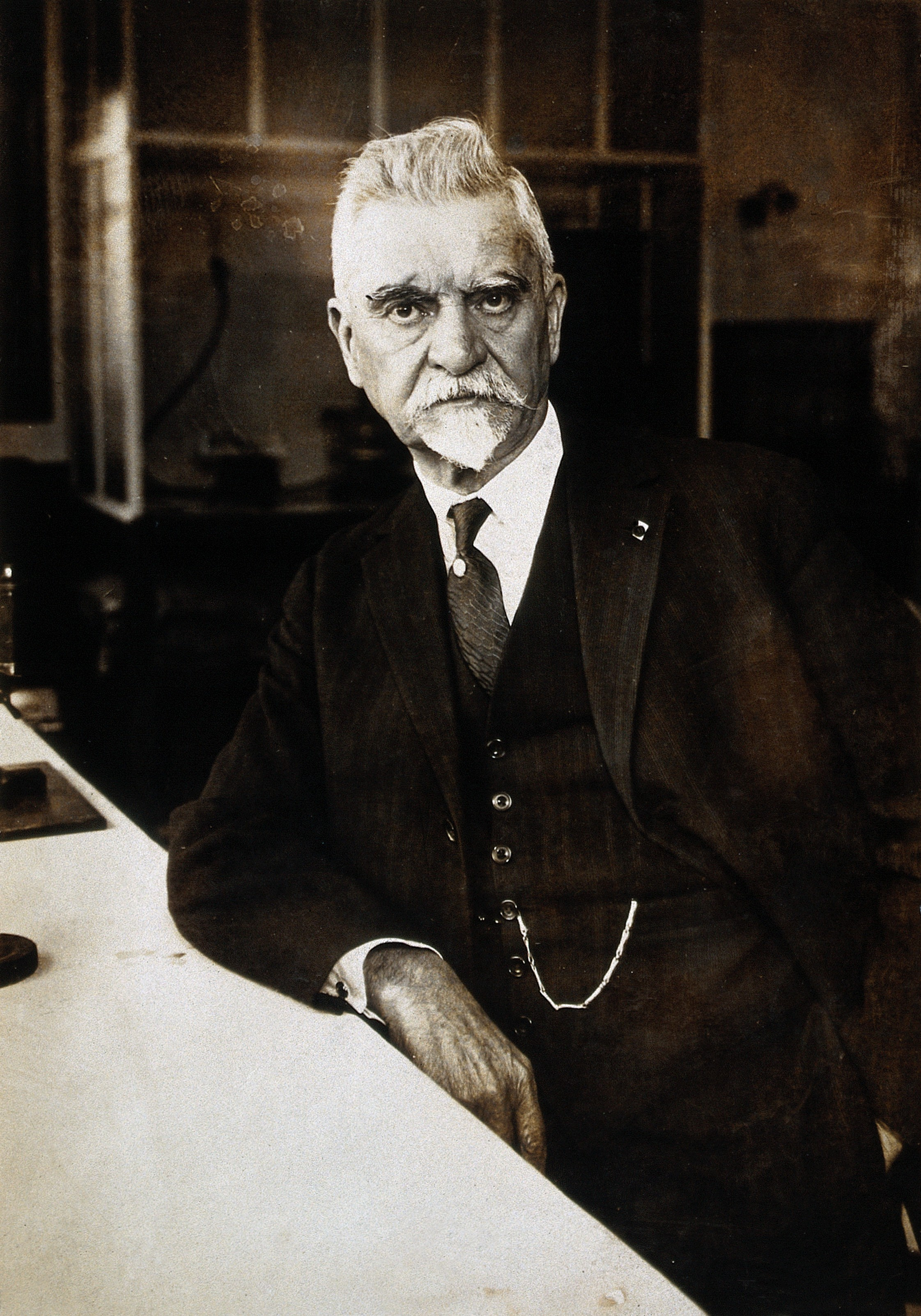 Emile Marchoux. Photograph. Biography